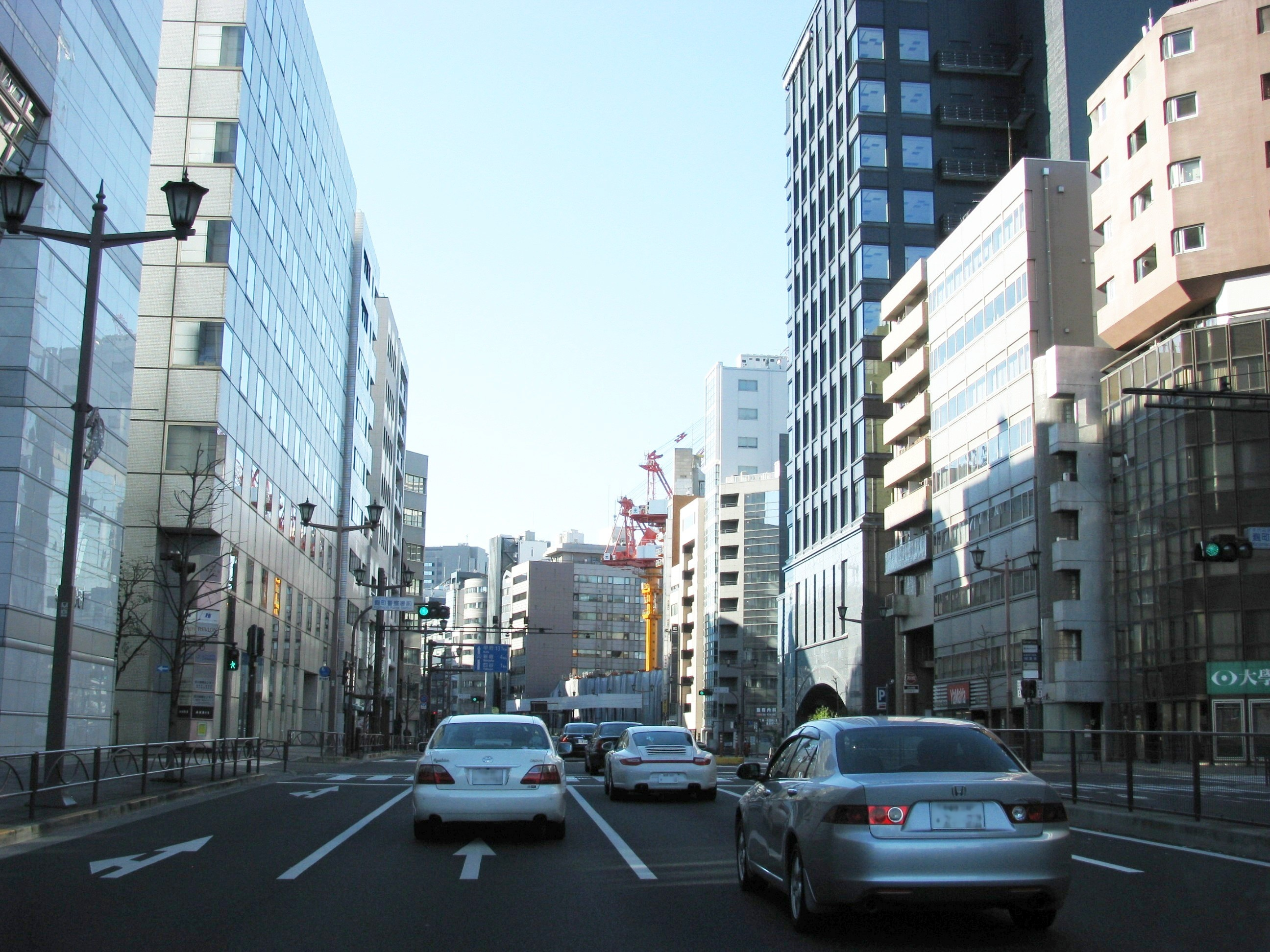 The Japan National Route 20. This place is Kōjimachi in Chiyoda, Tokyo, Japan.